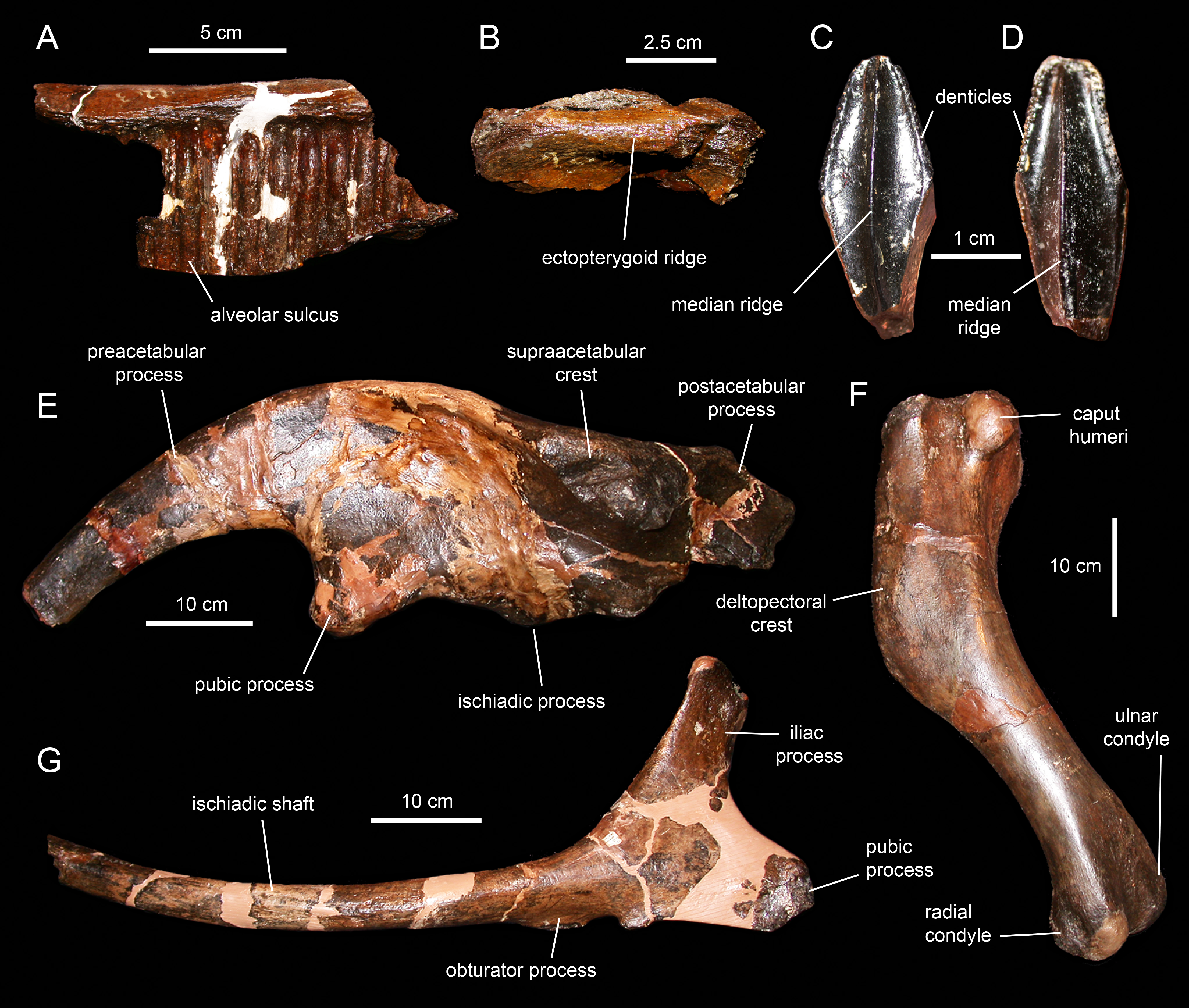 Selected cranial and appendicular elements of Hadrosaurus foulkii. (A) Fragment of maxilla in medial view (ANSP 9203), showing the alveolar sulci of the dental battery. (B) Fragment of the caudal region of a maxilla in lateral view (ANSP 9204). (C) Dentary tooth crown in lingual view (ANSP 9201). (D) Maxillary tooth crown in labial view (ANSP 9201). (E) Left ilium in lateral view (ANSP 10005). (F) Left humerus in caudolateral view (ANSP 10005). (G) Right ischium in lateral view (ANSP 10005).